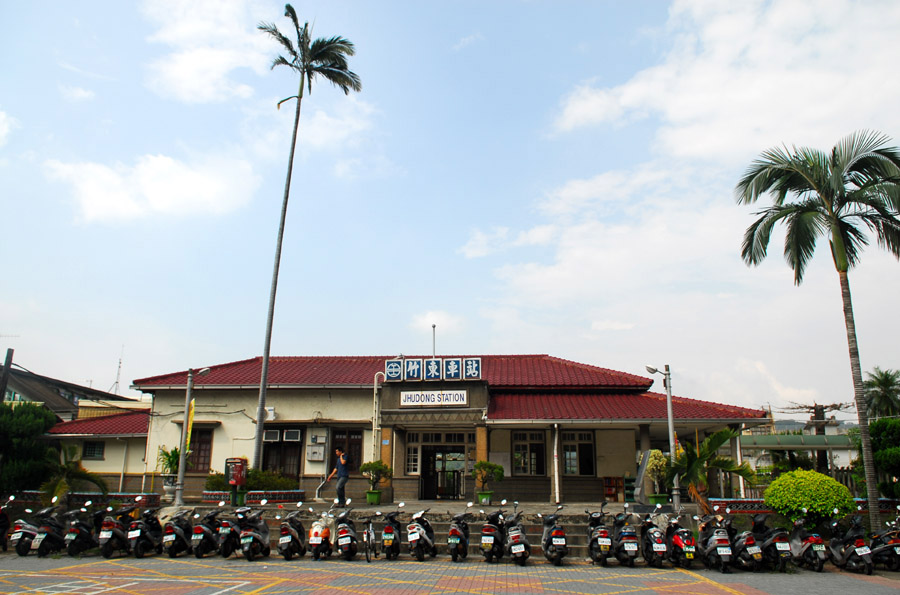 JhuDong Station is a local train station on NeiWan Line, a branch line of TRA. It's the main station of JhuDong Town, HsinChu County, and is alos the biggest station along the NeiWan Line.